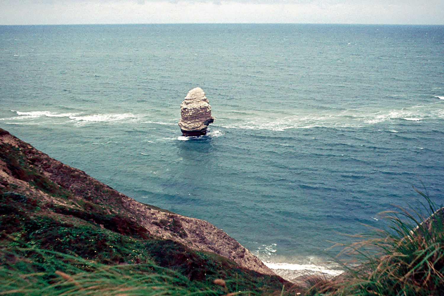 Skarreklit (Northwest Jutland) in August 1977